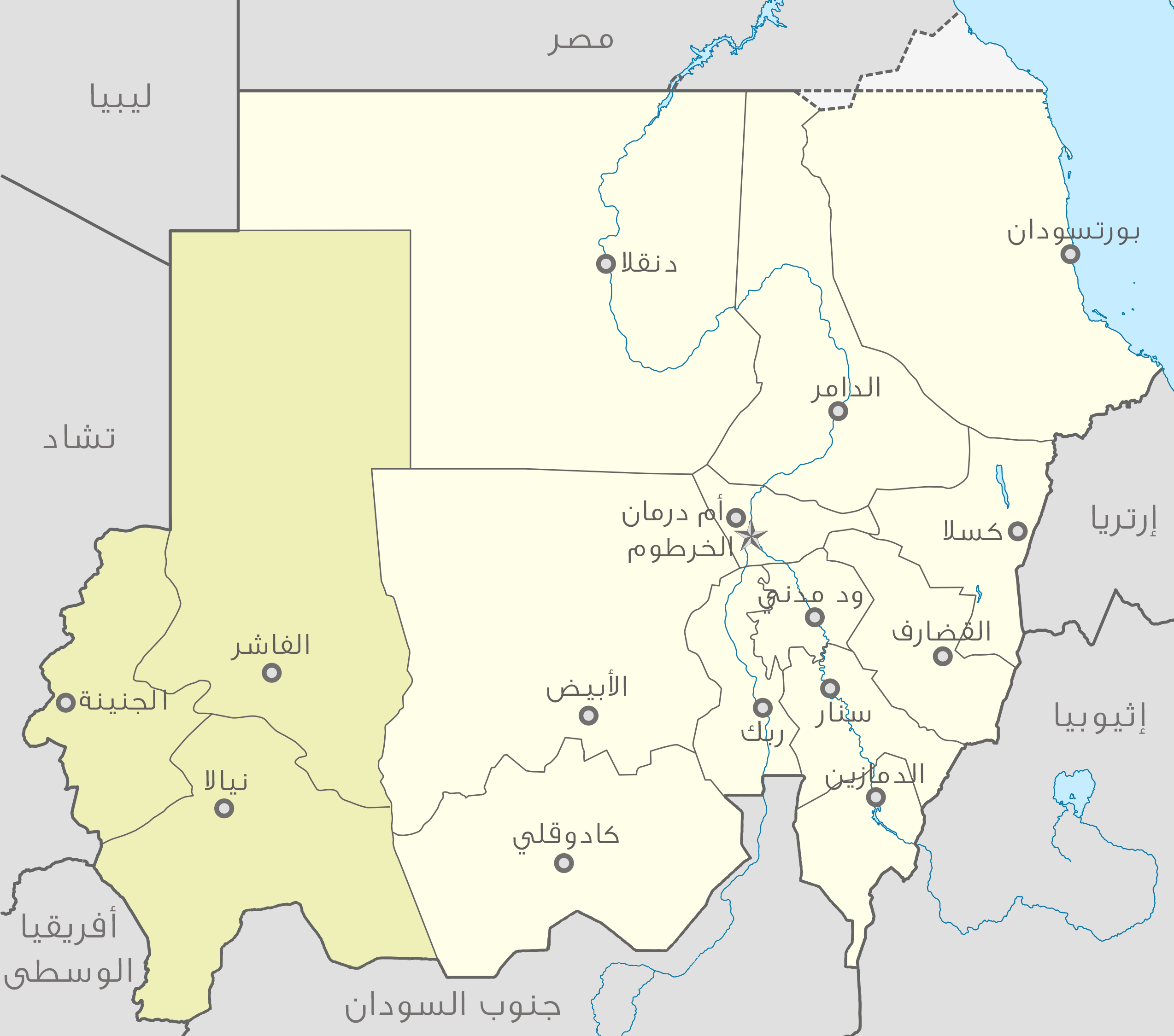 Map of Darfur within Sudan, July 2011.